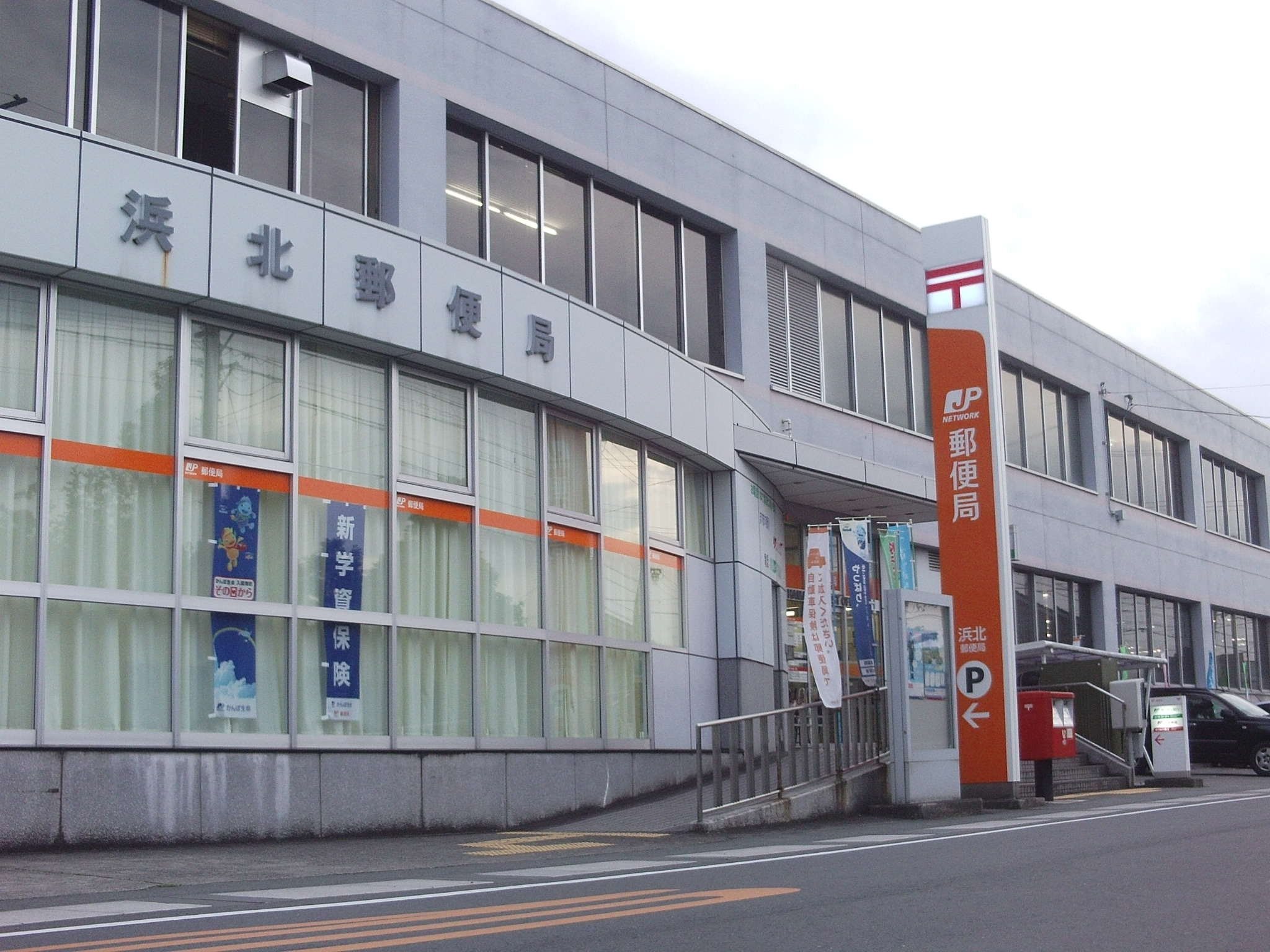 Hamakita Post Office in Hamakita, Shizuoka, Japan.